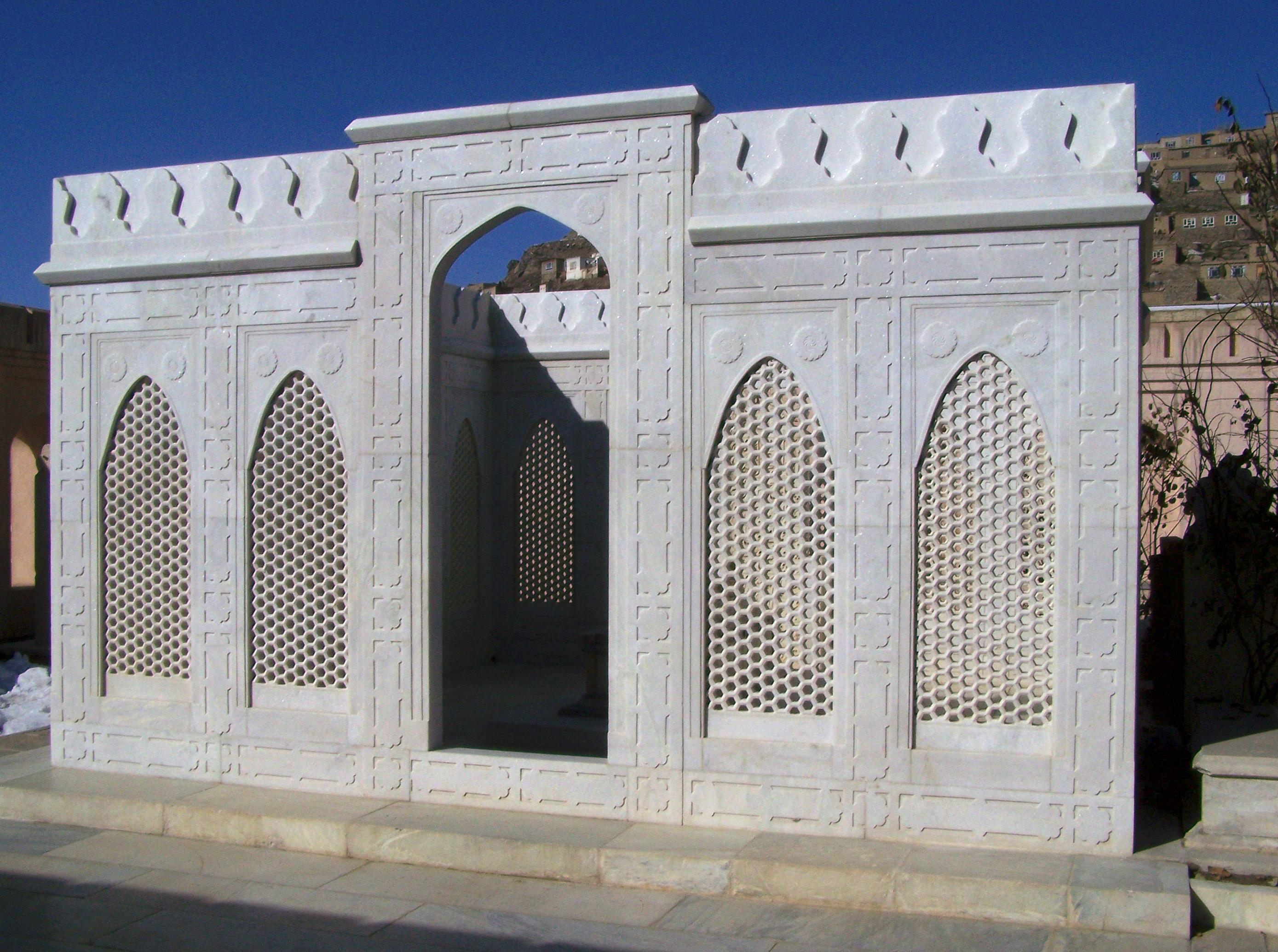 Babur's tomb in the Bāgh-e Bābur in Kabul, Afghanistan